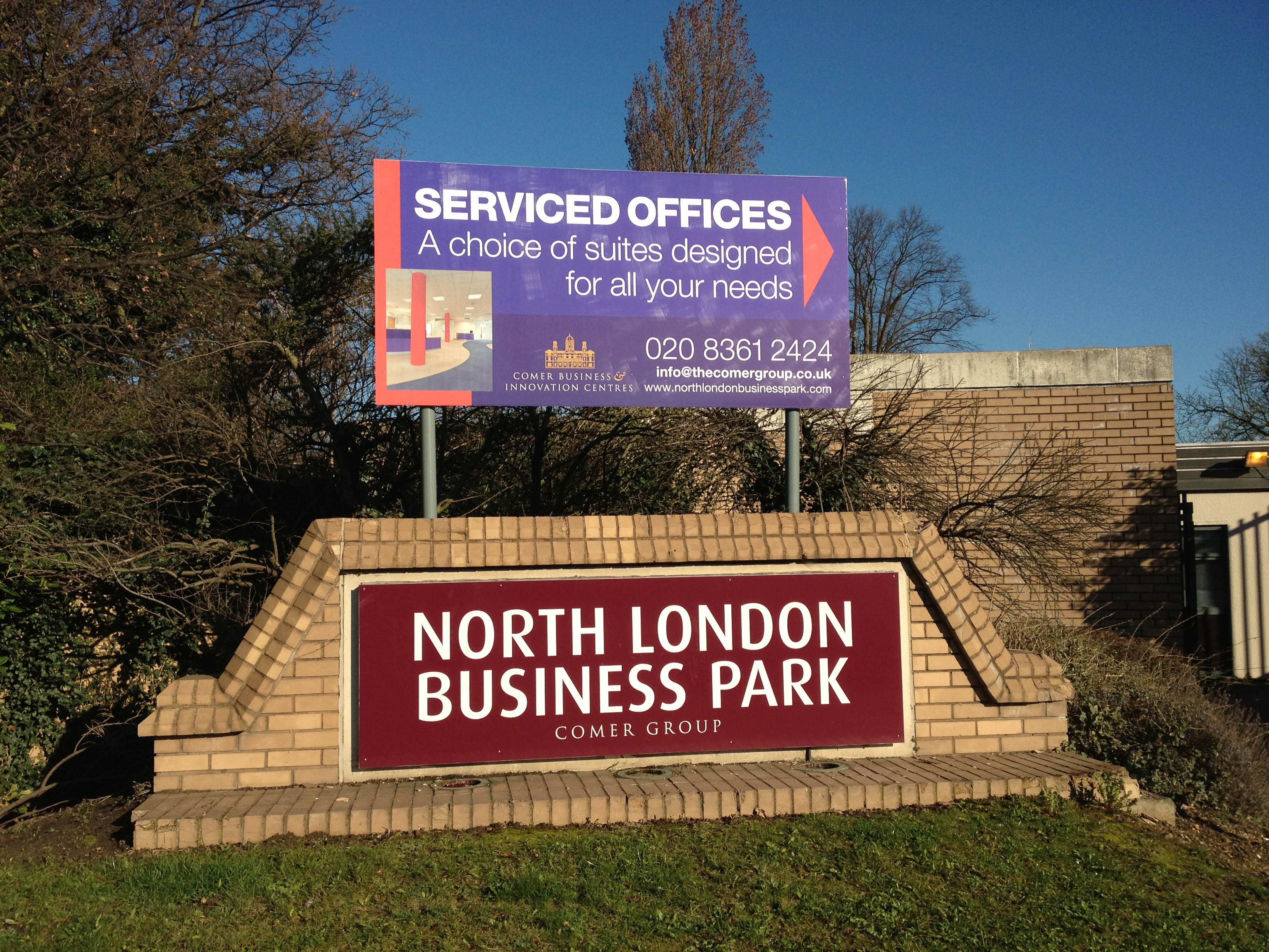 According to the 2006 planning brief the site was founded in the 1920s by Standard Telephone and Cable as New Southgate Works. Northern Telecom (Nortel) took over the site in 1989 and started constructing an 'Optical Centre for Excellence' (now Building 3) in 2000. In 2002 Nortel left. The only tenant is currently Barnet Council who have buildings 2 and 4. History site: .uk/ A brochure on the history site says that the International Western Electric Company bought the site in 1922. It looks like all the buildings currently on the site were built by Nortel. .uk/photos/site21c.htm